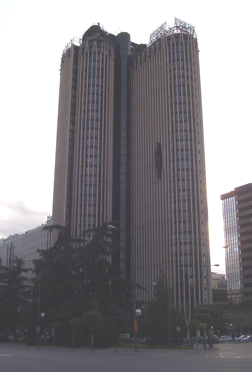 Torre Europa (Madrid, Spain, 1985). Architect: Miguel Oriol e Ybarra. View from the Paseo de la Castellana (avenue).